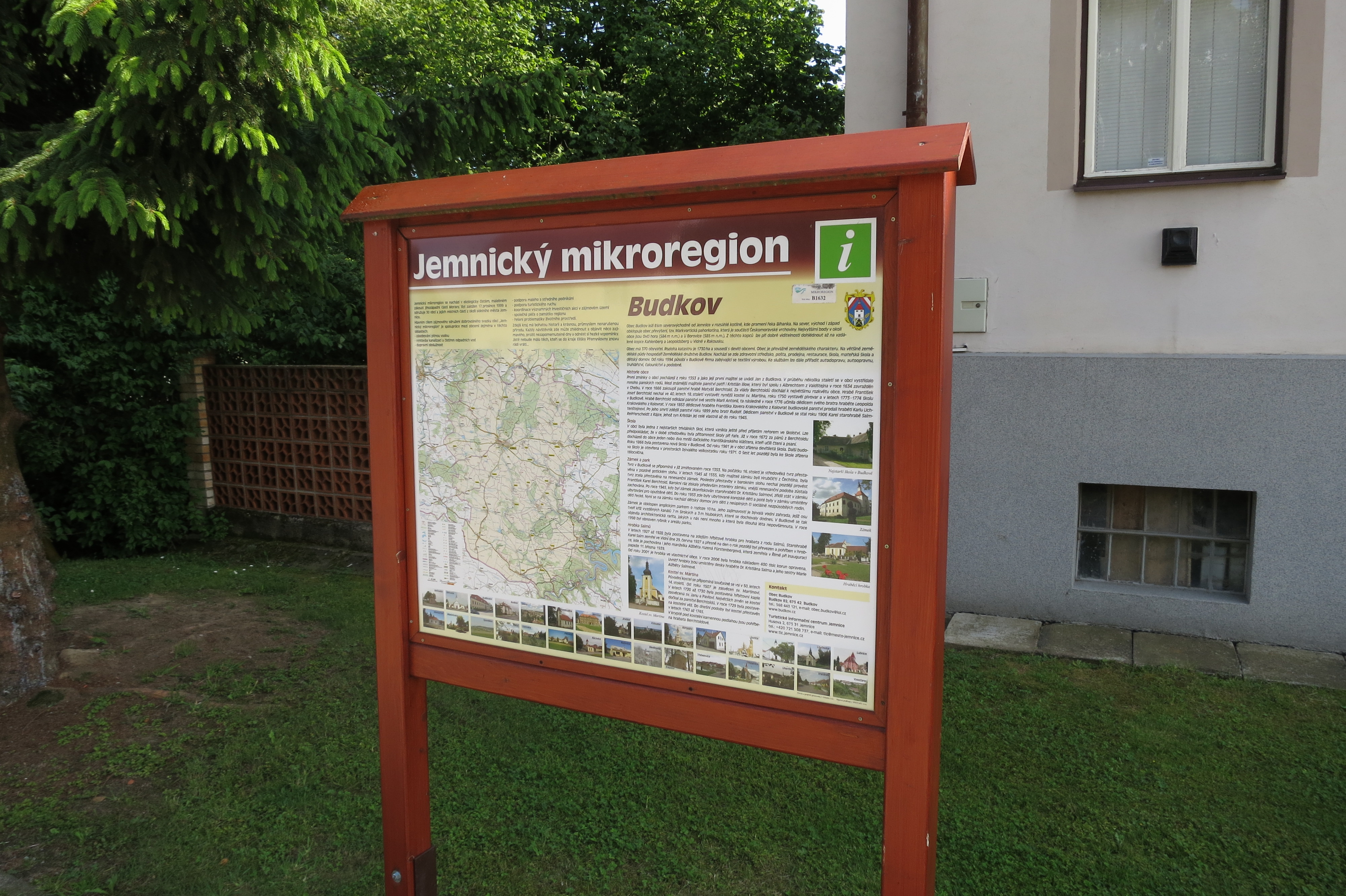 Sign of Jemnický mikroregion in Budkov, Třebíč District.